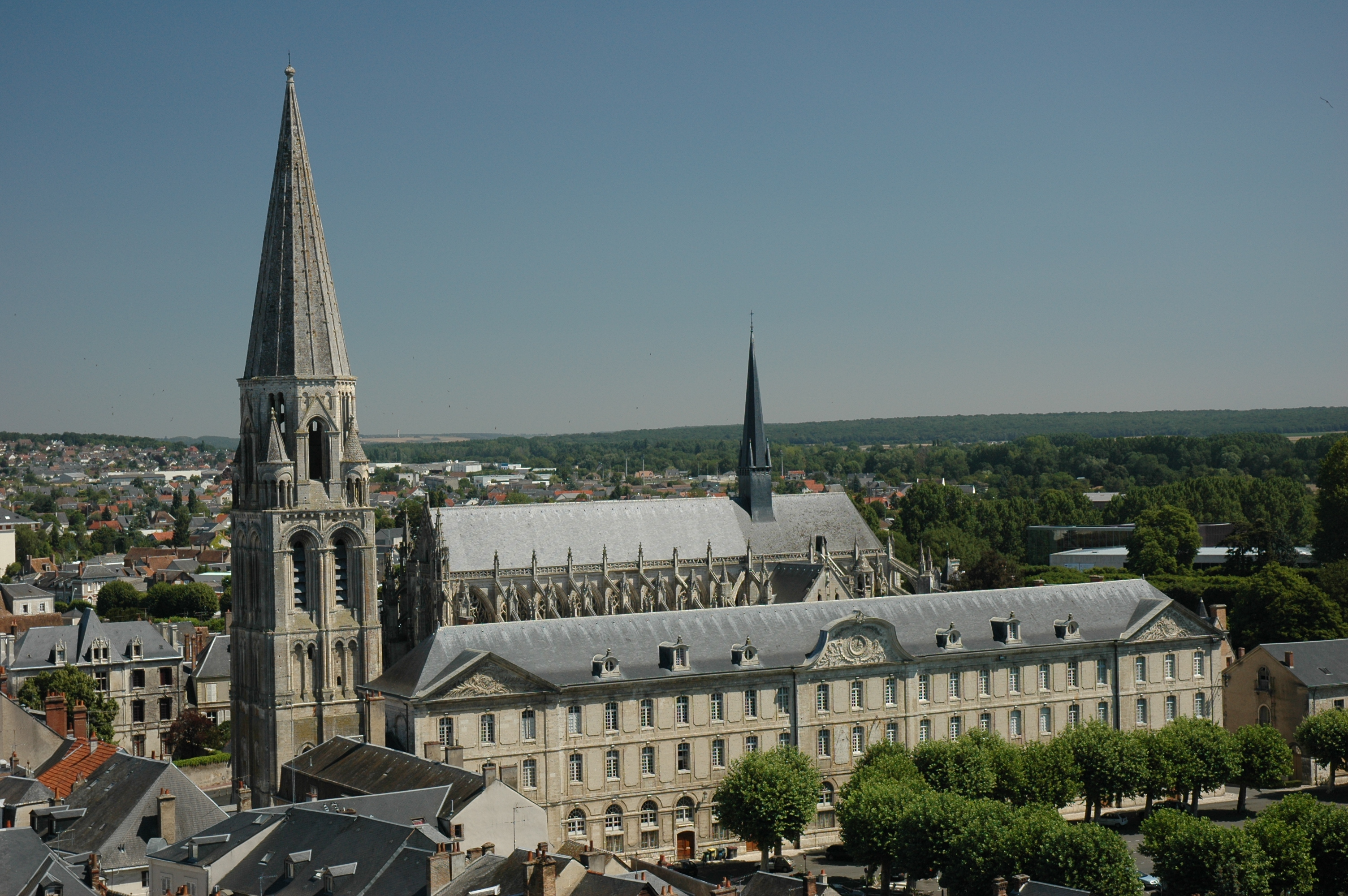 Vendôme, Loir-et-Cher, France